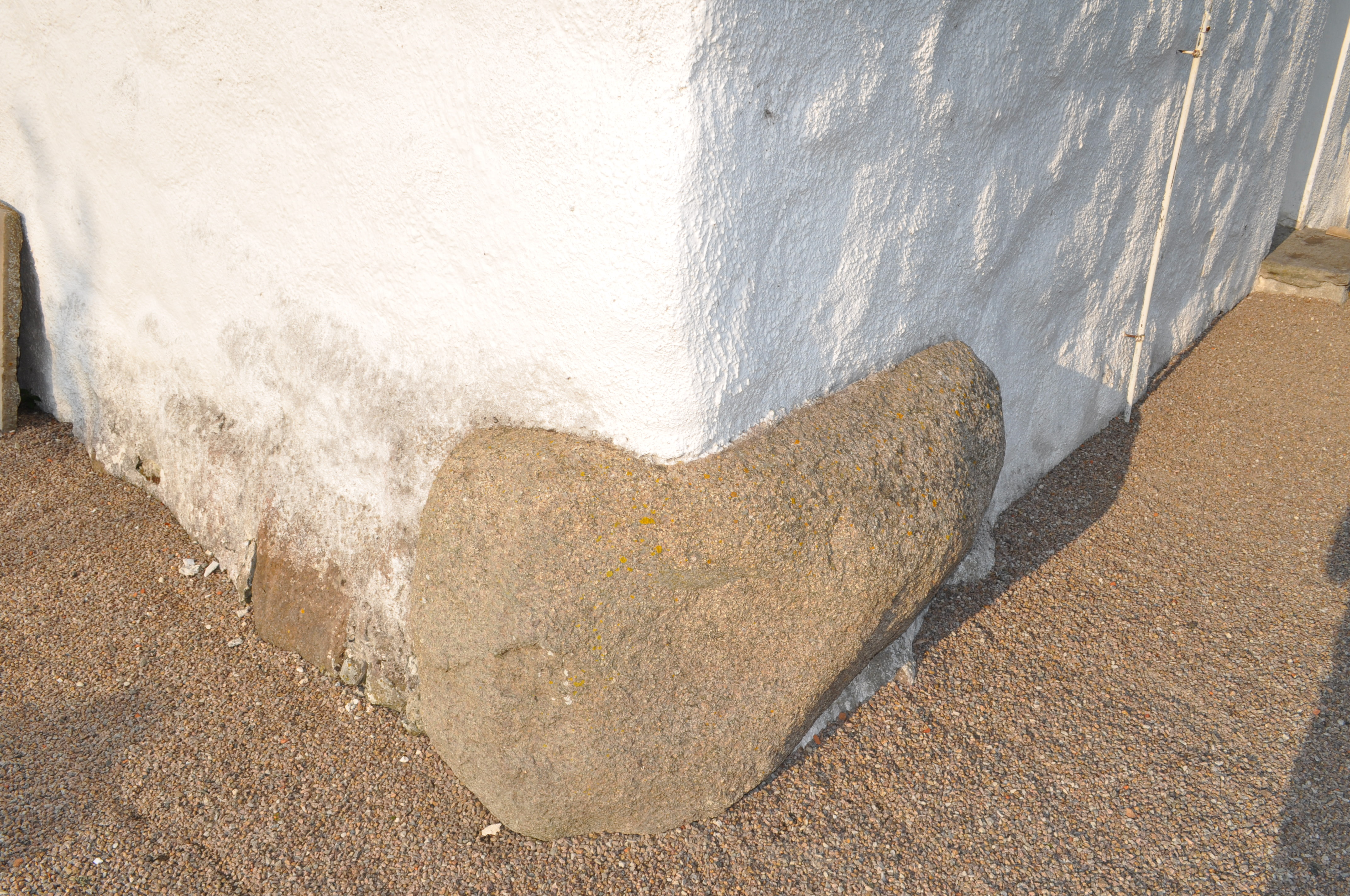 Kiaby church - kyrka